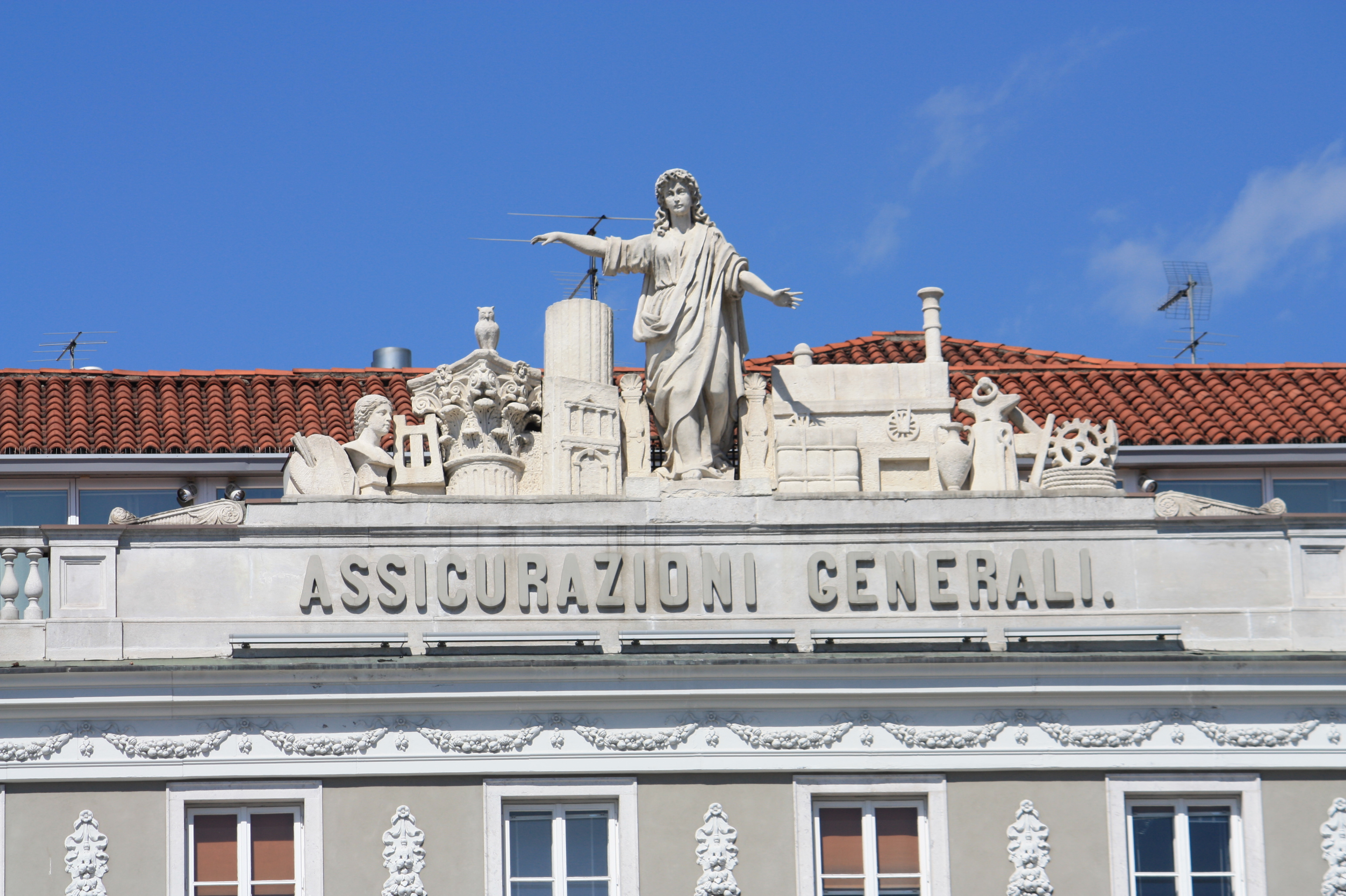 Assicurazioni generali building in the piazza unita d'italia, Trieste